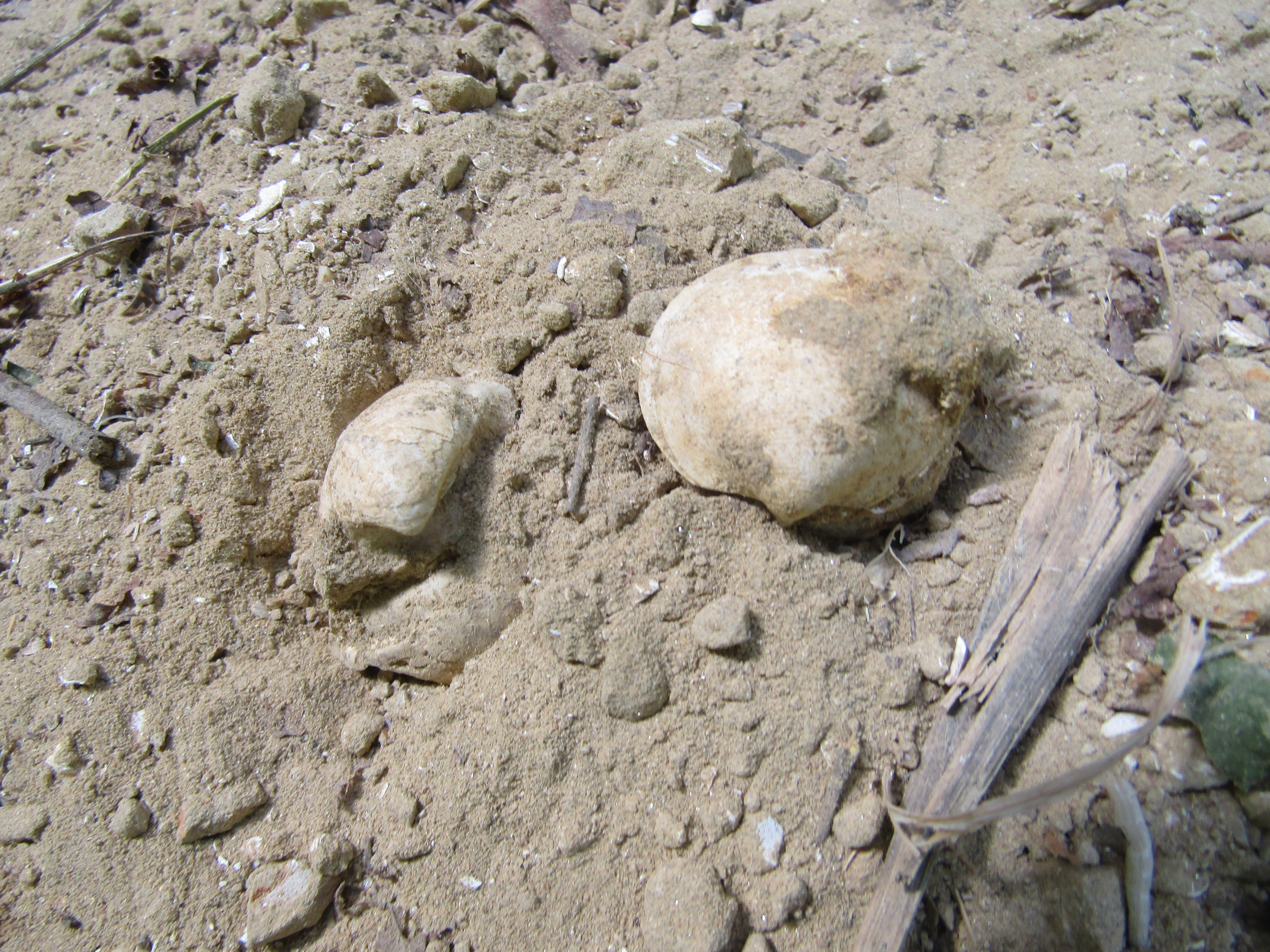 Riserva naturale speciale della Val Sarmassa (AT, Italy)